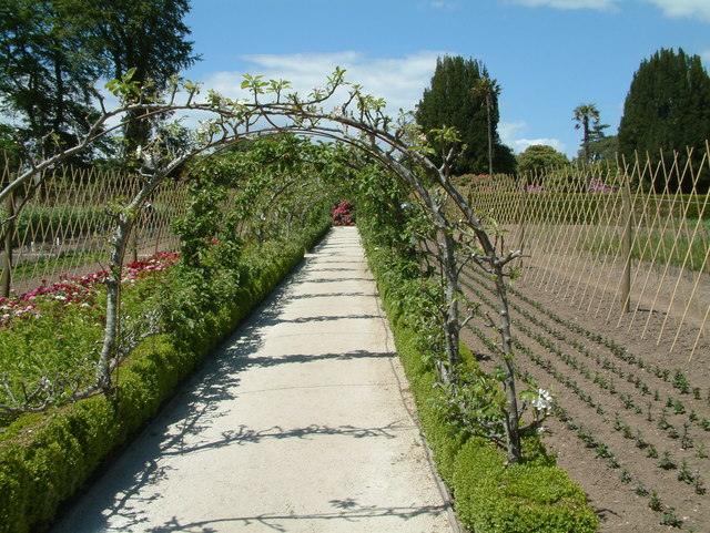 The Sundial Garden at the Lost Gardens of Heligan. Traditional varieties of apple, planted in 1994 create a tunnel of blossom in early May. The apple trees are trained in espalier fashion. For more information see the Wikipedia article Lost Gardens of Heligan.